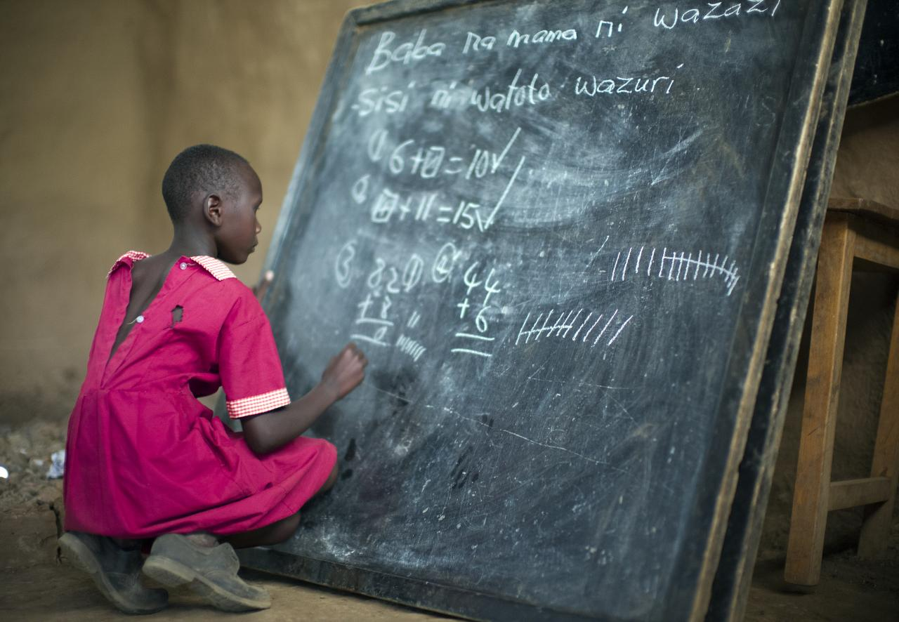 Masai girl at school doing maths